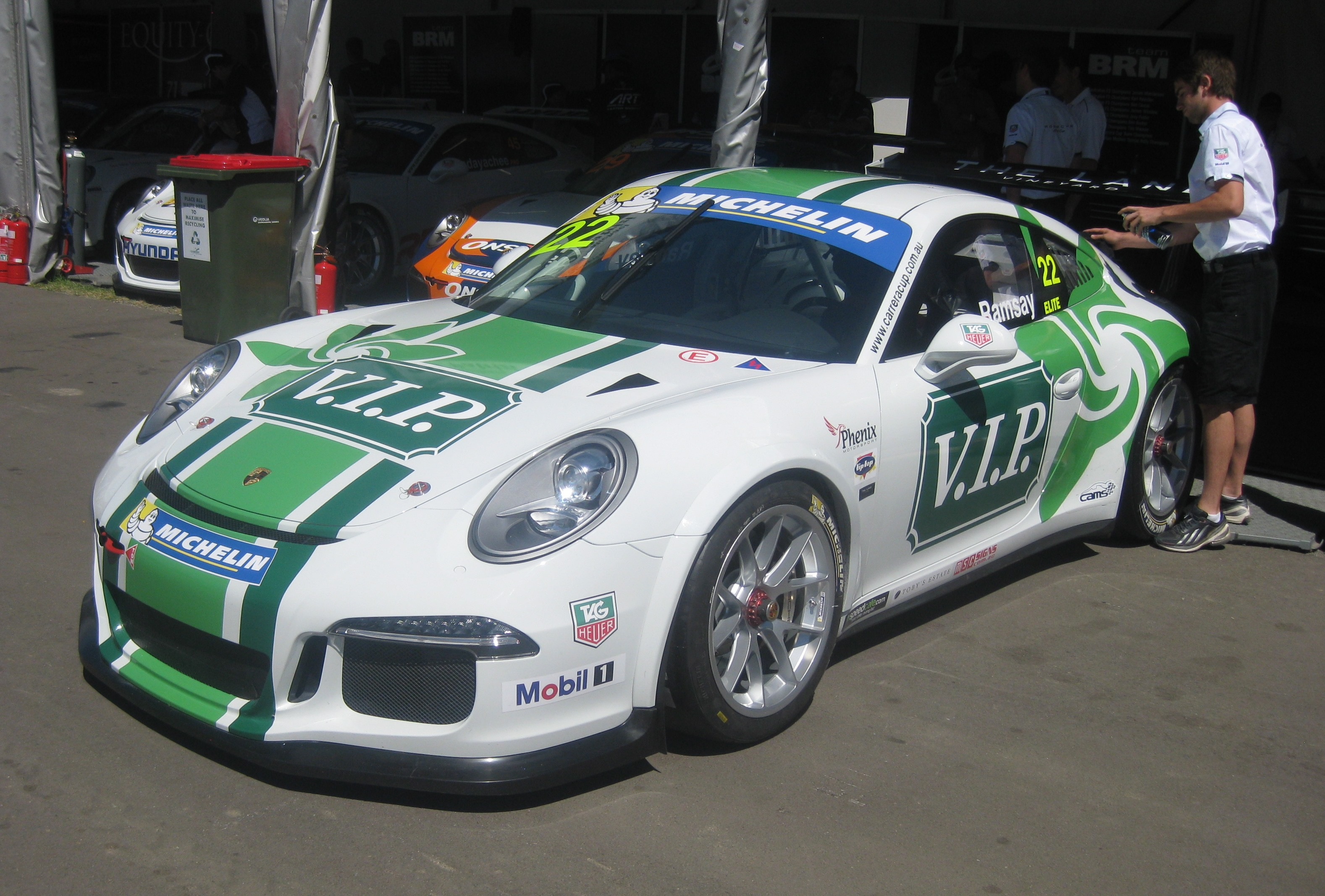 Porsche 911 GT3 Cup Type 991 of Brenton Ramsay. Round 1, 2014 Australian Carrera Cup Championship, Adelaide Parklands Circuit.